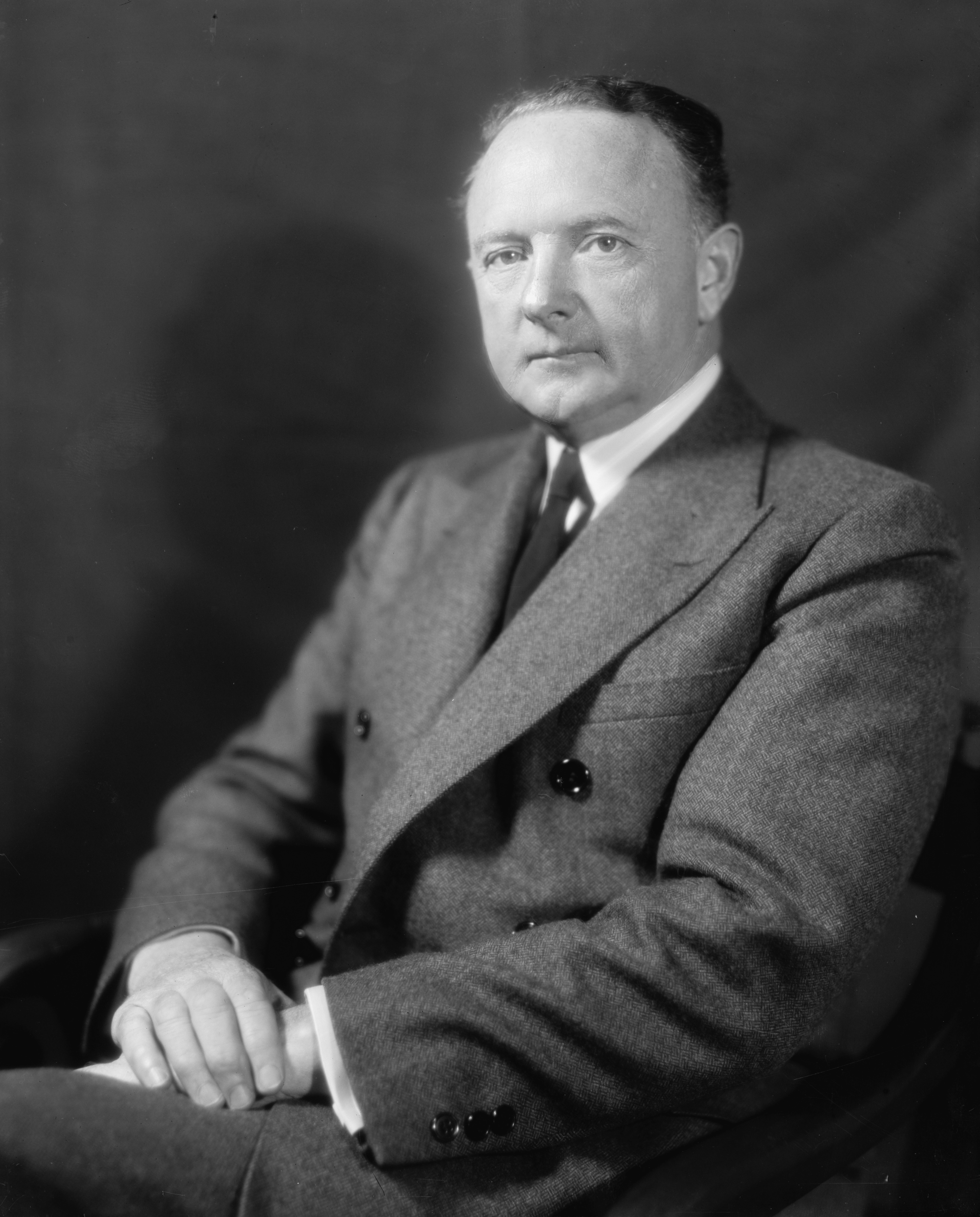 Harry Flood Byrd, Sr. (June 10, 1887 – October 20, 1966), American newspaper publisher, farmer, and politician, while Governor of Virginia